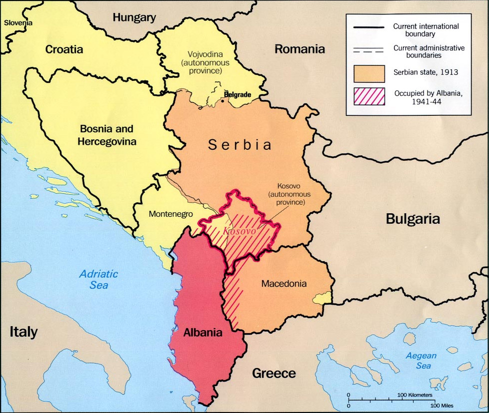 Kosovo from 1913 to 1992